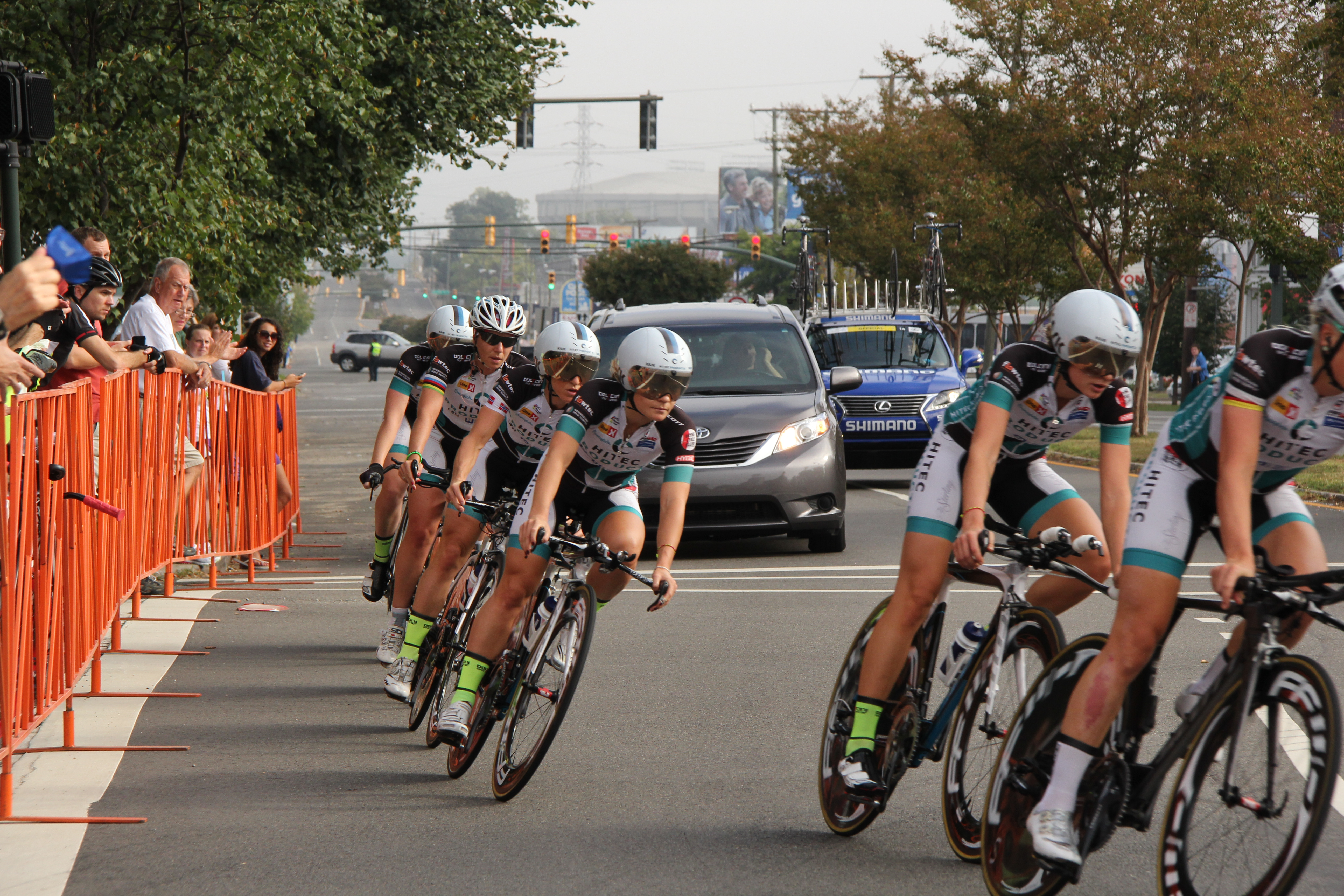 The world has come to Richmond. Welcome! Bienvenidos! Willkommen! 2015 UCI Road World Championships, in Richmond, United States